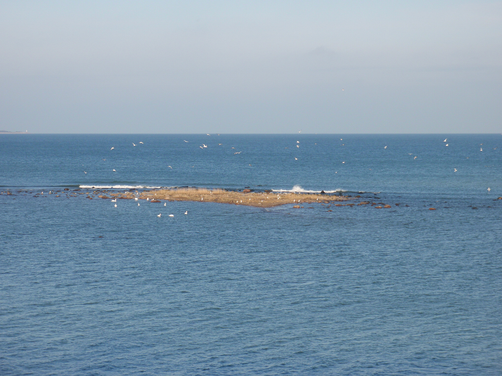 Kivikari